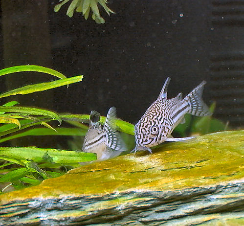 corydoras trilineatus